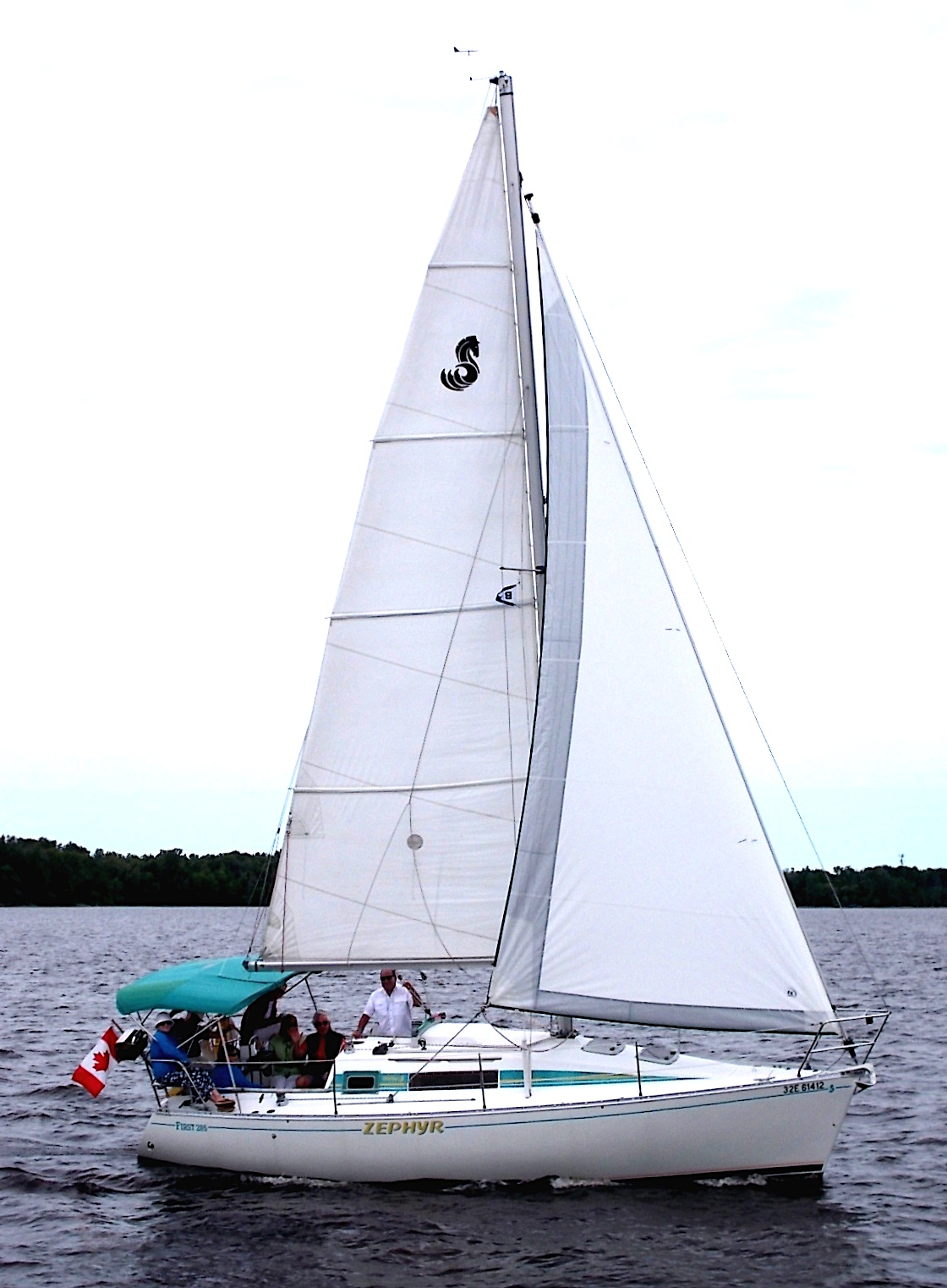 Beneteau First 286 sailboat Zephyr on Lac Deschênes, part of the Ottawa River, Ottawa, Ontario, Canada